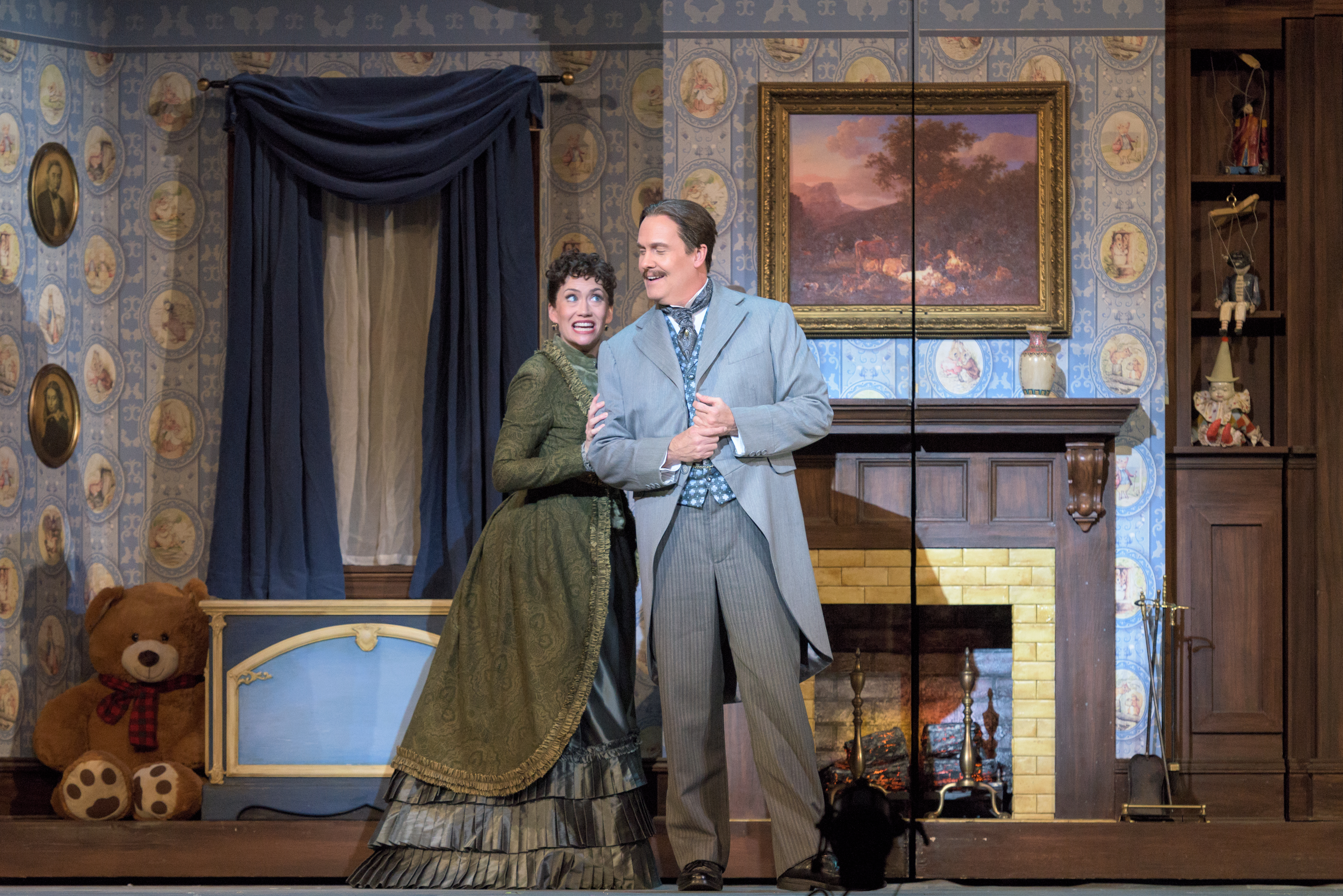 February 4, 2015 Academy of Music Philadelphia, PA Photo by Steven Pisano.